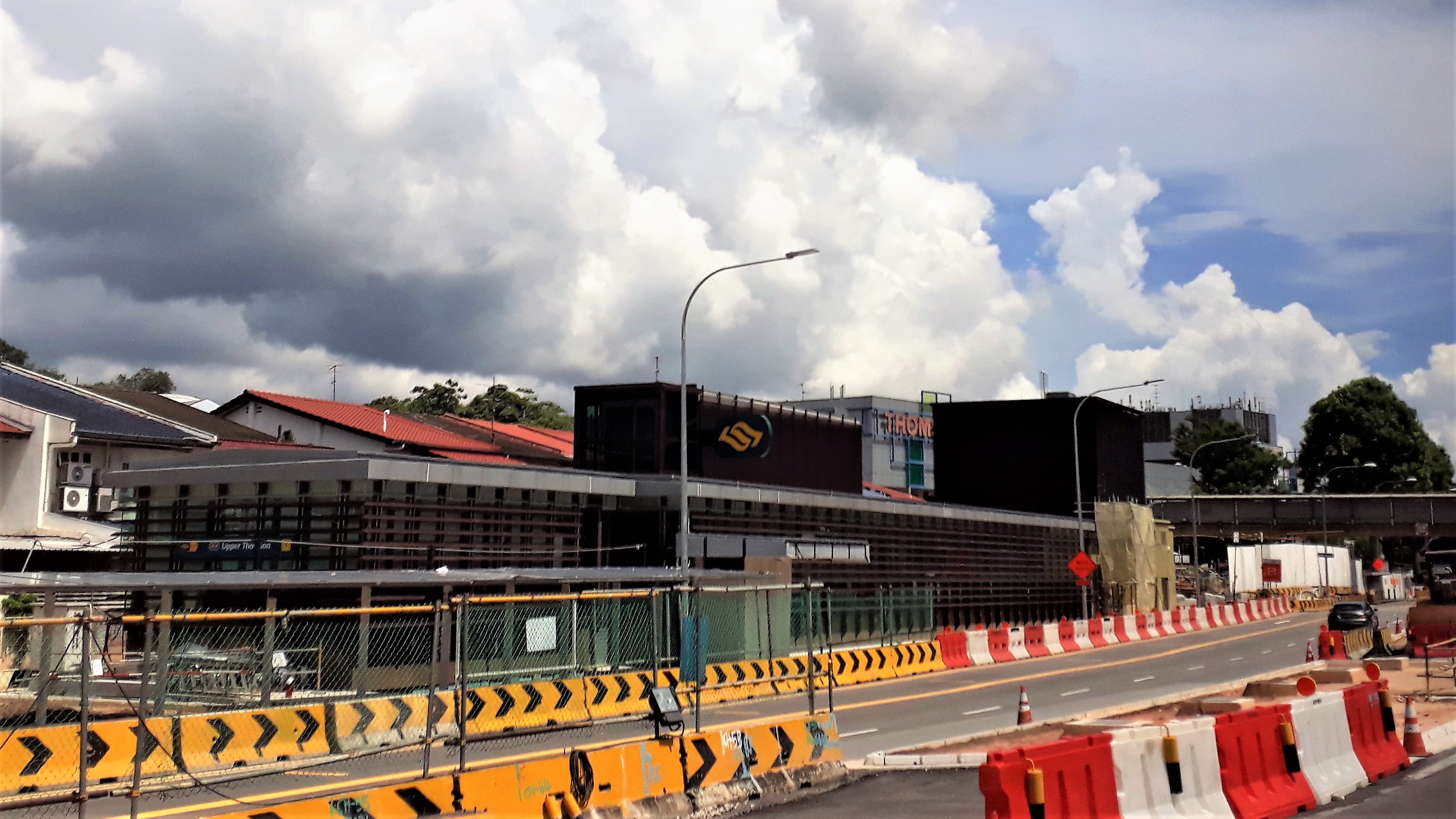 Upper Thomson MRT station